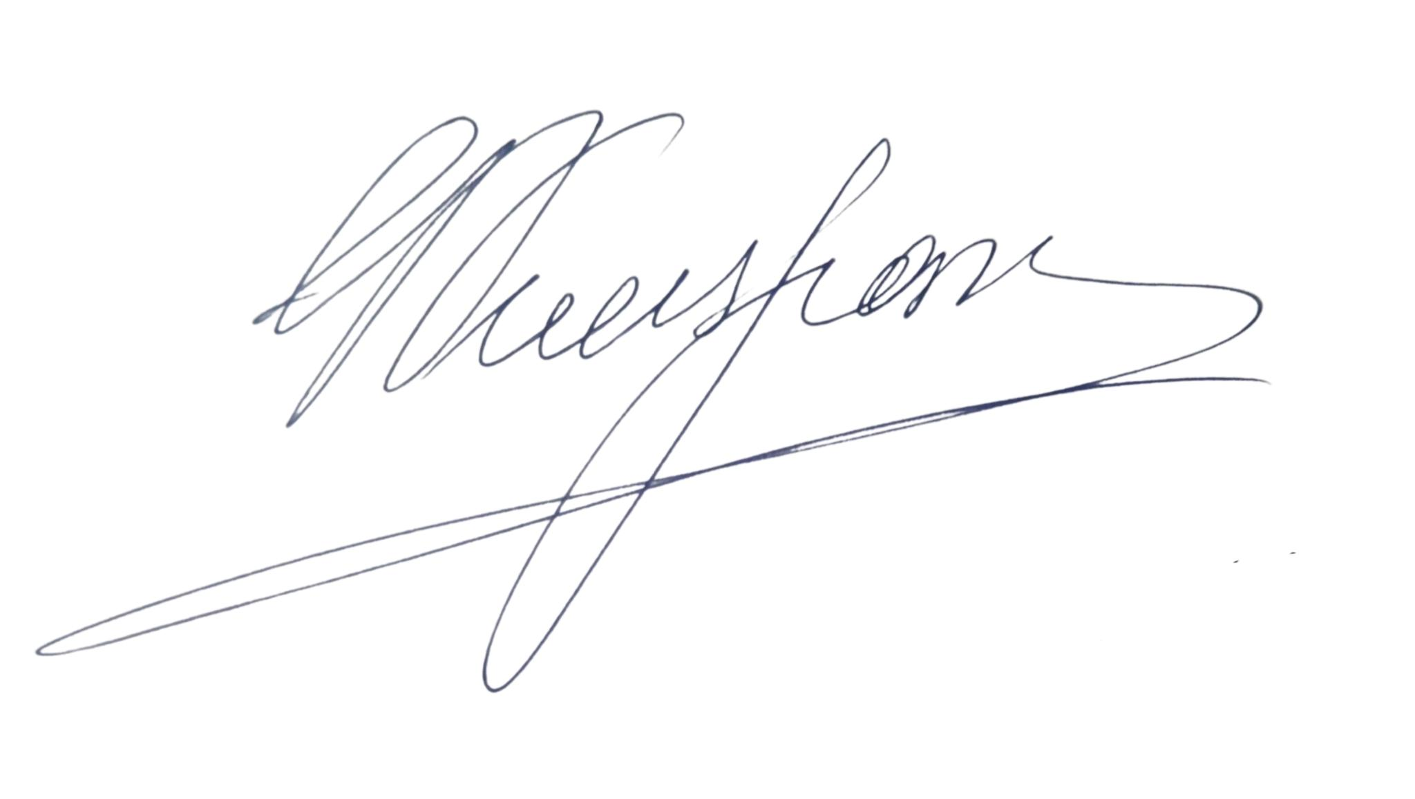 Signature of Kasparov